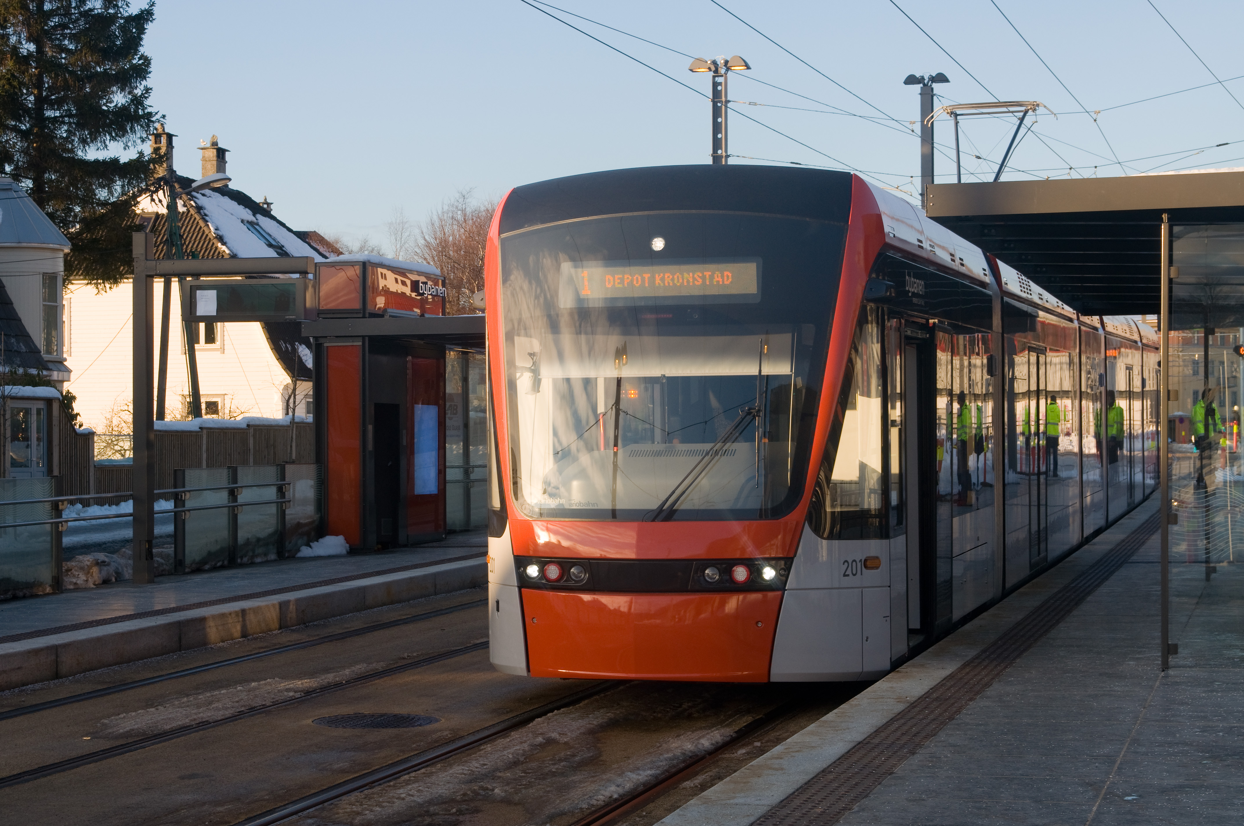 Bergen Light Rail Variotram 201 in Inndalsveien, Bergen, Norway.